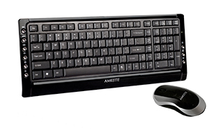 A wireless smart tv keyboard combo